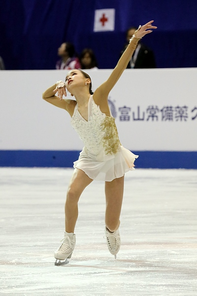 Photos – Junior World Championships 2017 – Ladies